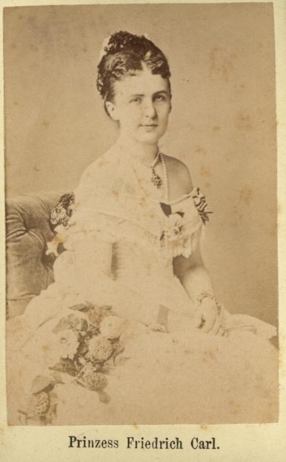 Princess Marie Anne of Prussia (1837–1906), née Princess of Anhalt-Dessau.